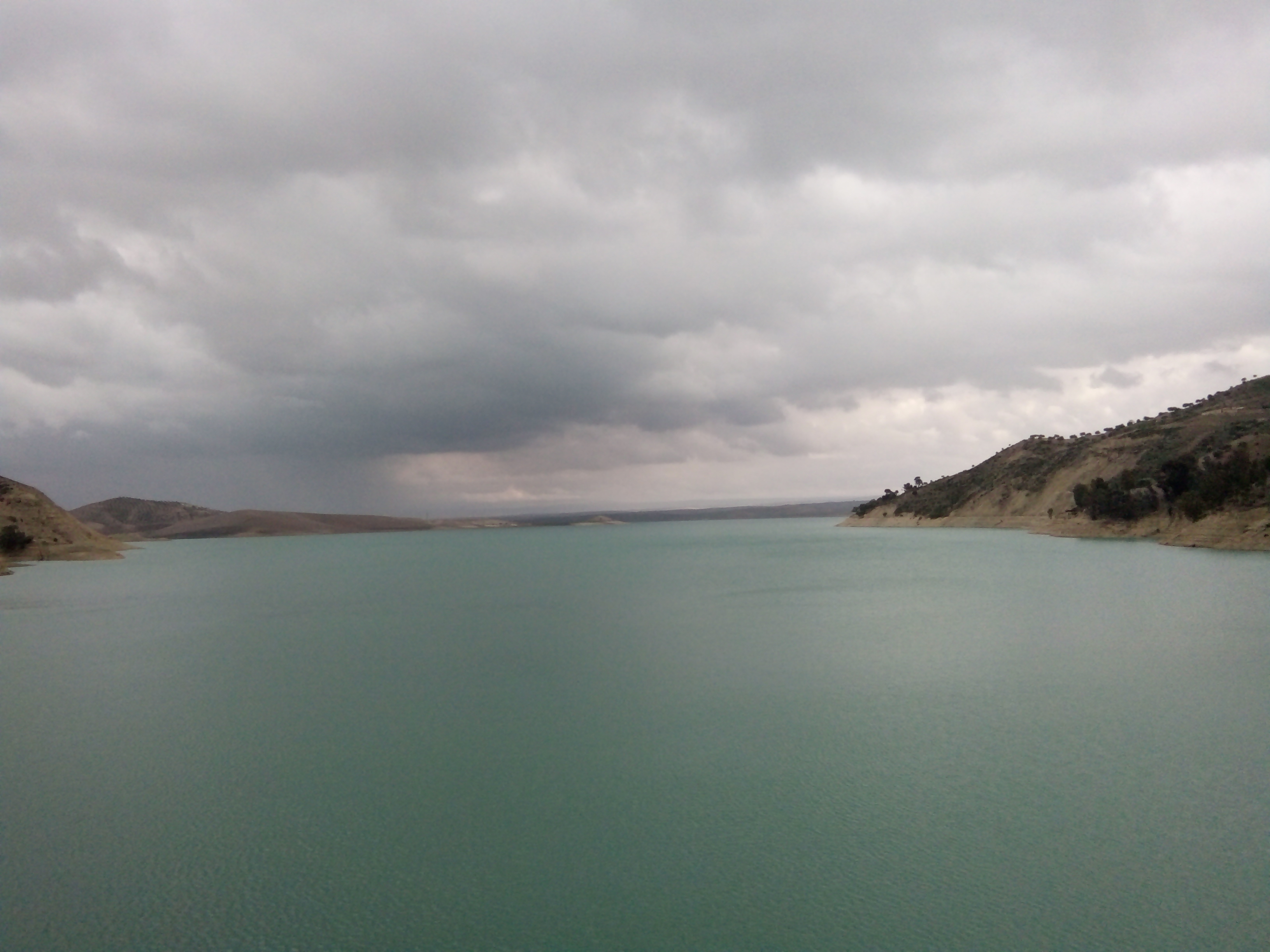 Idriss I Dam